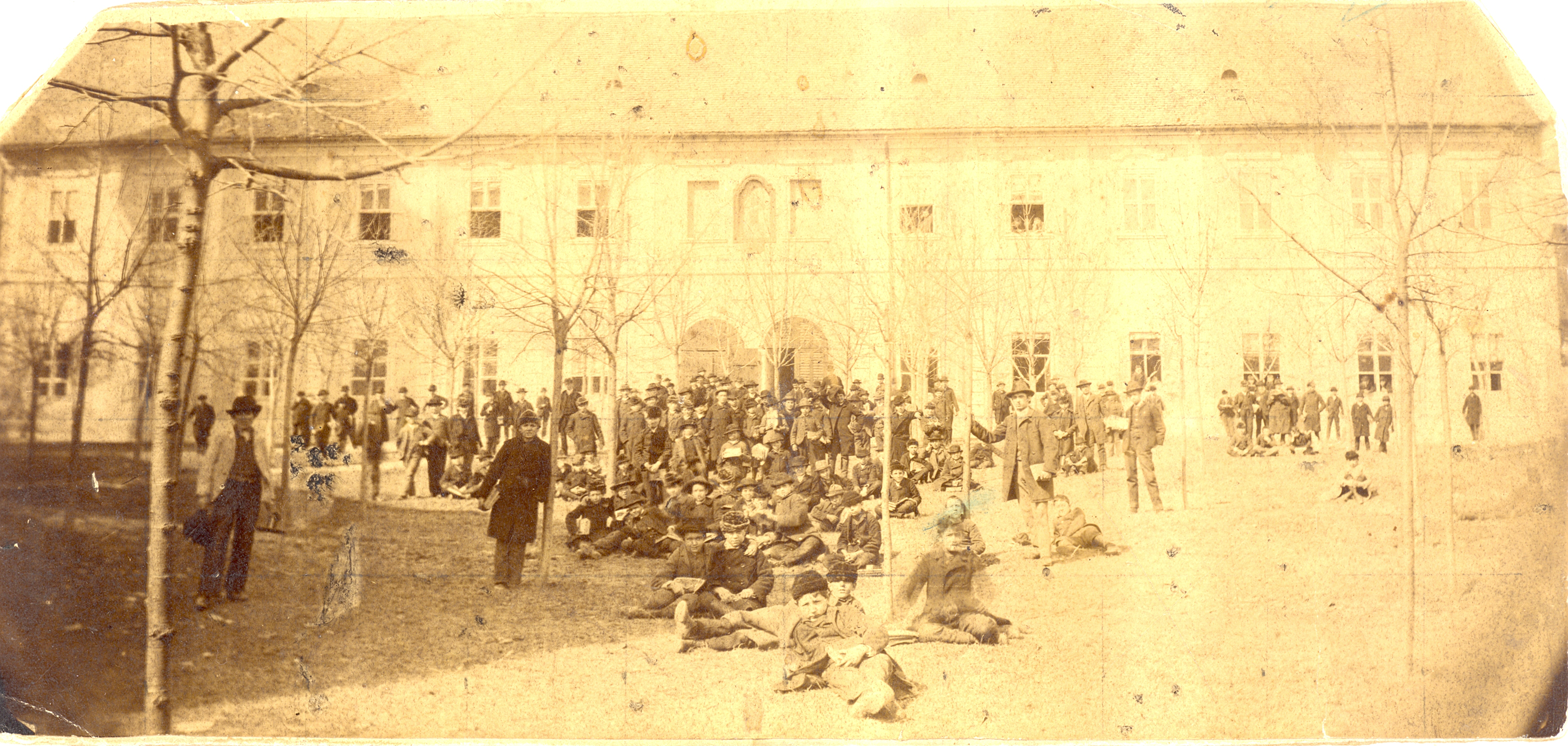 Photograph of the old building of the Serbian Orthodox gymnasium in Novi Sad (1889), inventory number 714. Srpski (latinica): Fotografija stare zgrade Srpske pravoslavne velike gimnazije u Novom Sadu (1889), inventarski broj 714.